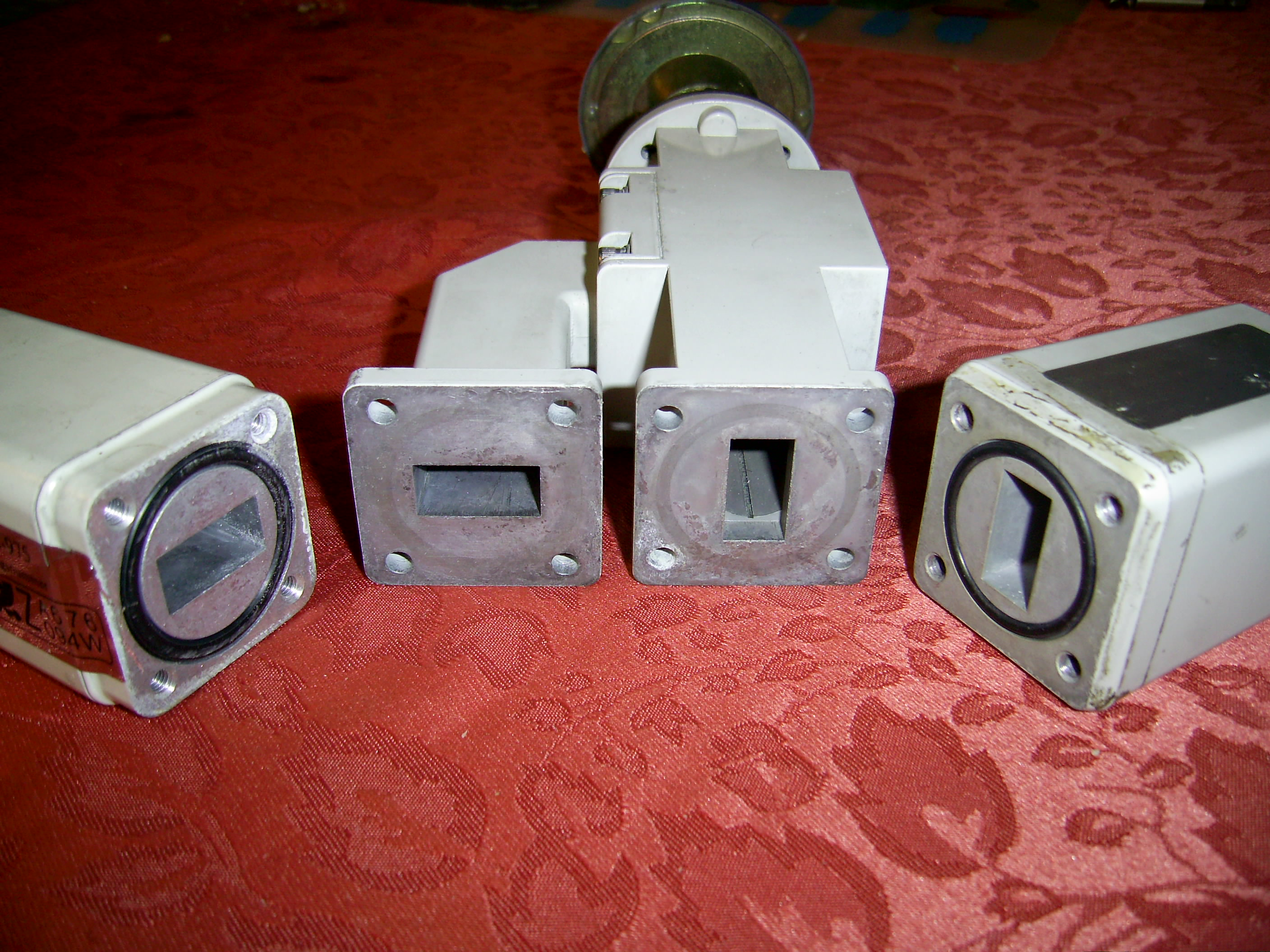 Accord TX/RX Horizontal/Vertical Orthomode transducer LNB w/feed horn